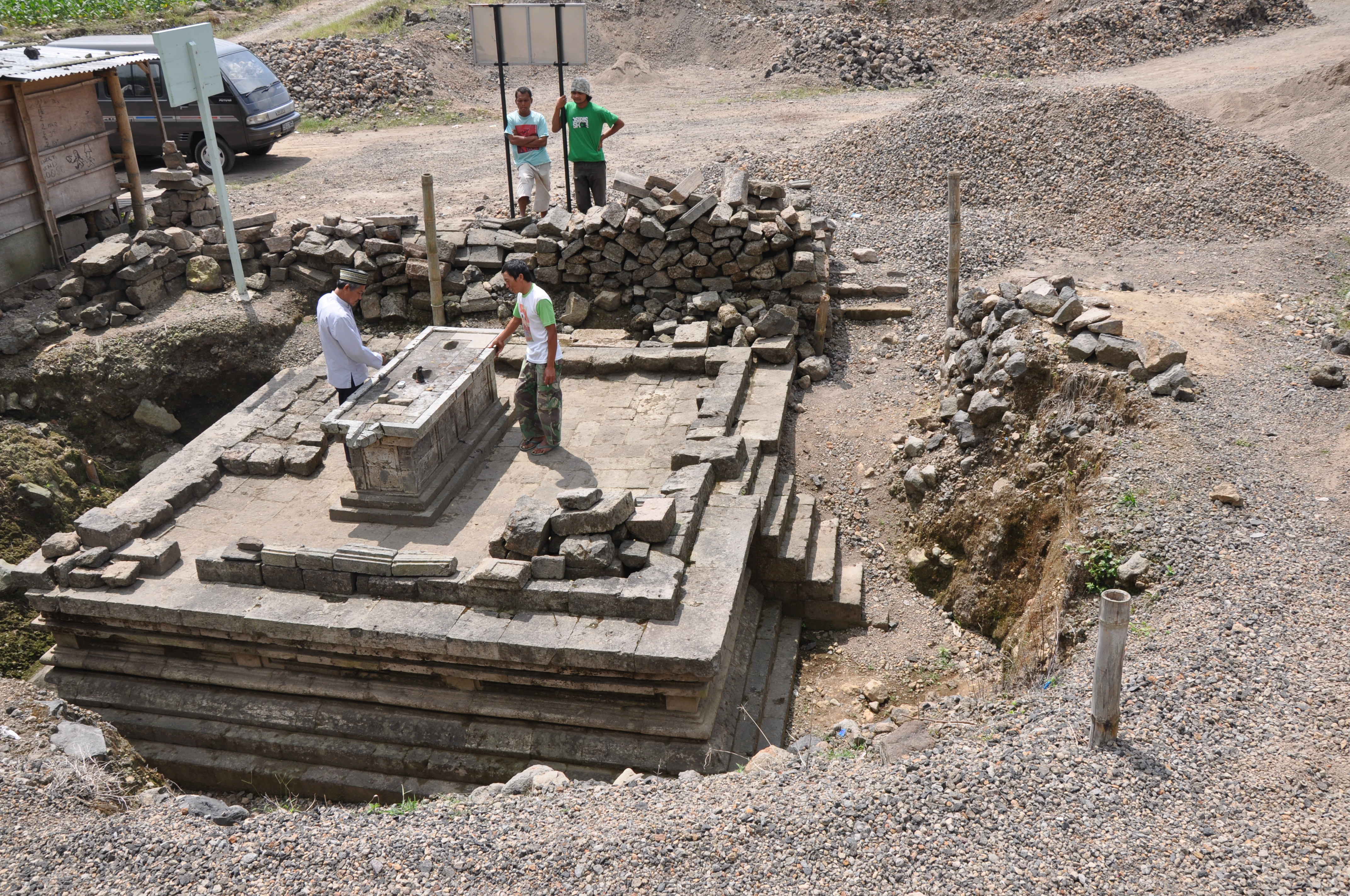 Excavation of the Candi Liyangan temple in northern Central Java.